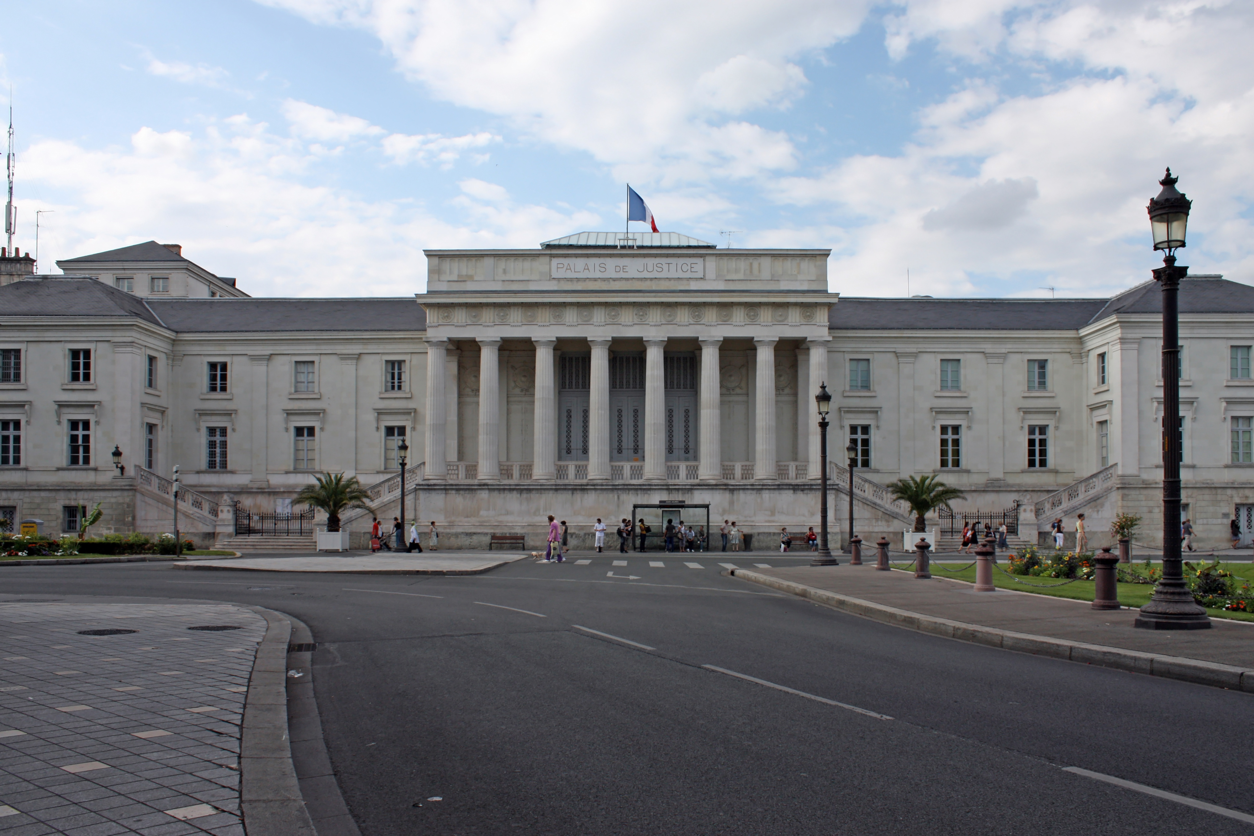 The courthouse of Tours.